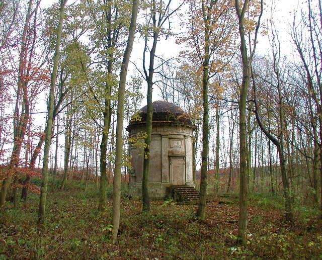 Raikes Mausoleum, Welton, East Riding of Yorkshire, England.Built in 1818 by Robert Raikes Esq. (1765-1837), a Hull banker and former owner of Welton Hall, for himself and his family.